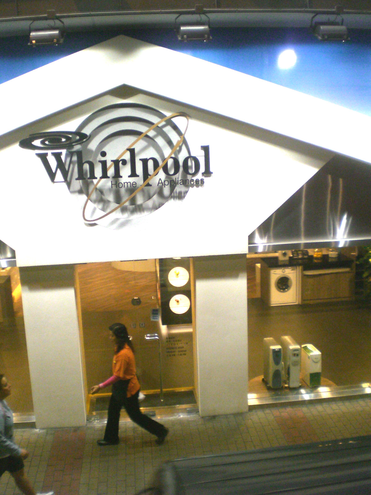 Description= Whirlpool Corporationshowroom at Leighton Road, Causeway Bay, Hong Kong. [1] [2] [3] [4] Source= self-made Author= Leitondo